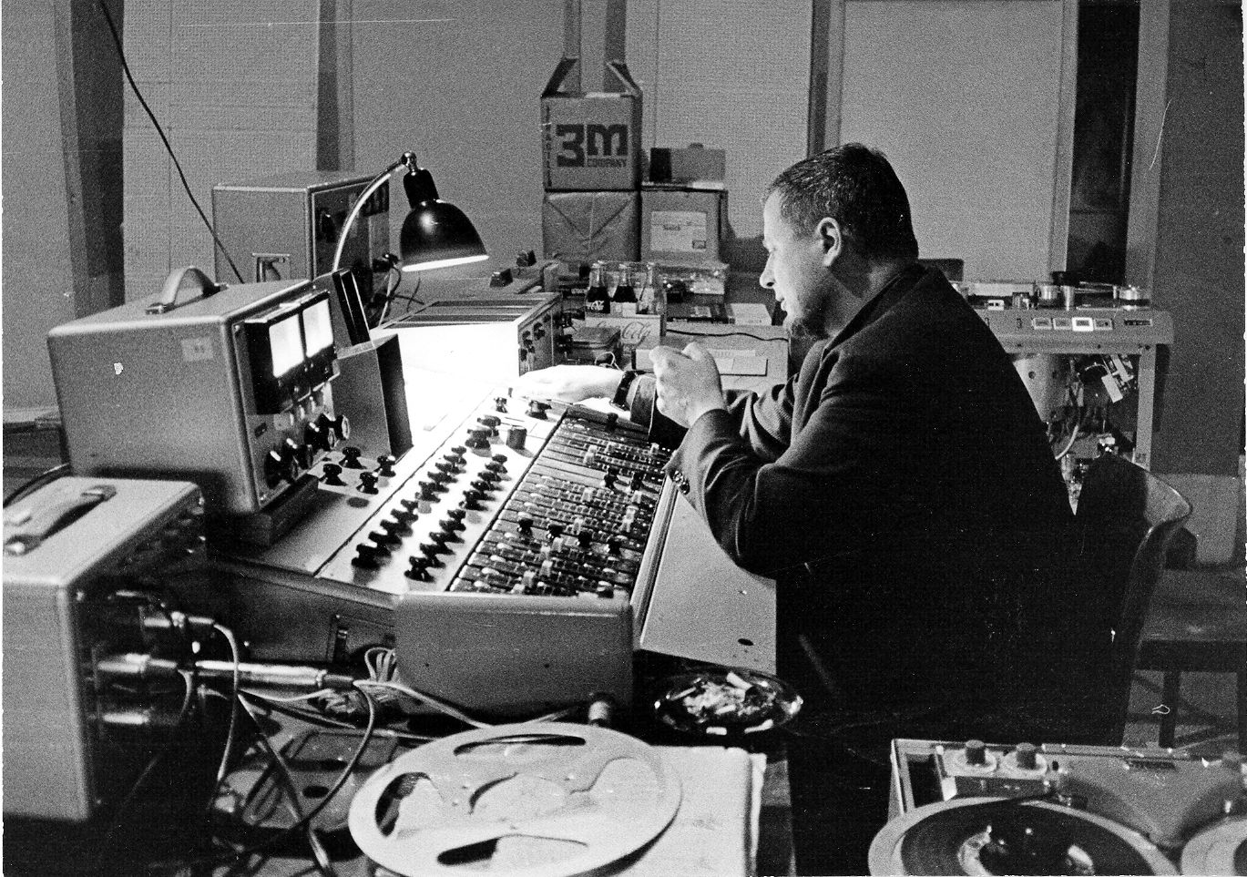 Kolbe at his 3-channel Leonhard Electronics portable tube recording console, most probably between 1966 and 1970 in Winterthur, with an opened Studer C37 professional analog tape recorder (manufactured between 1961-1970 in the background and a consumer-type Revox G36 recorder (manufactured between 1963-1967 in the foreground.